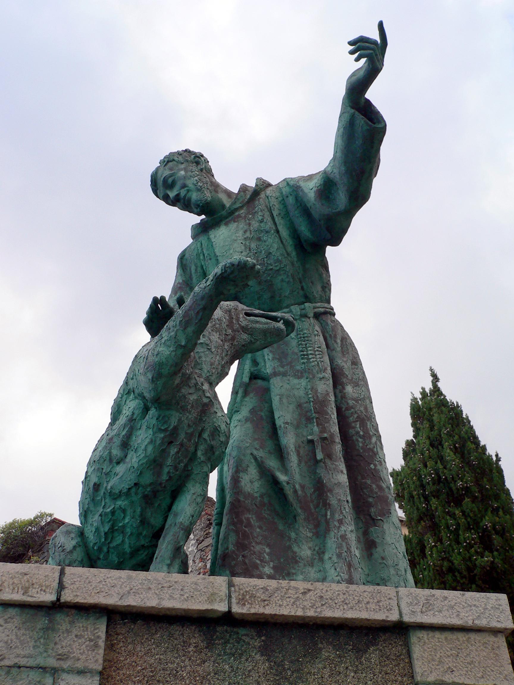 Taken on our trip to Italy in 2008, statue by sculptor Silvio Monfrini Monterosso al Mare